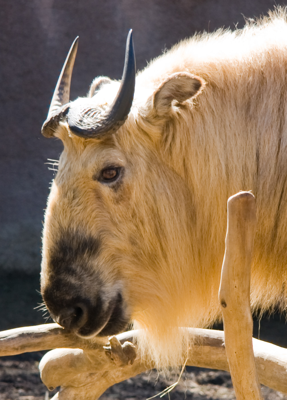 Takin in (Budorcas taxicolor) San Diego Zoo